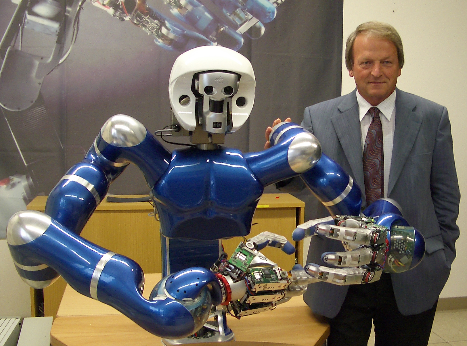 Gerd Hirziner, director of the Institute of Robotics and Mechatronics og the German Aerospace Center with the humanoid robot Justin